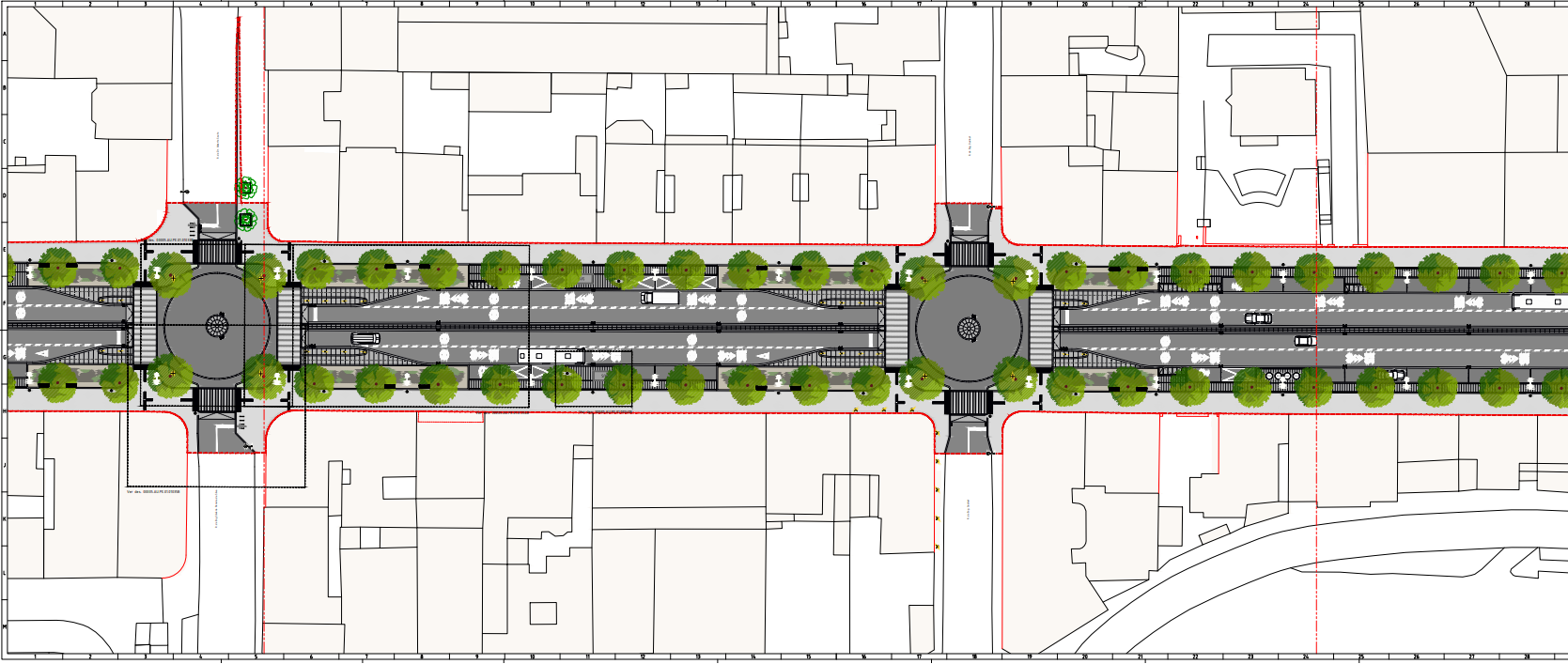 New Lourenço Peixinho Ave. (Aveiro, Portugal) construction project